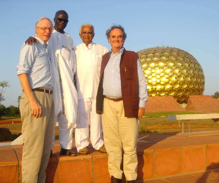 With other members of the advisory council. Sir Mark Tulley, Marc Luyckx Ghisi, Doudou Diène. In the background the Matrimandir.